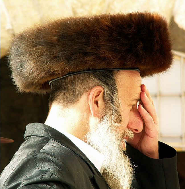 Orthodox Jew with a shtreimel (fur hat, made of sable tails) prays in the Kotel, Western Wall, Jerusalem